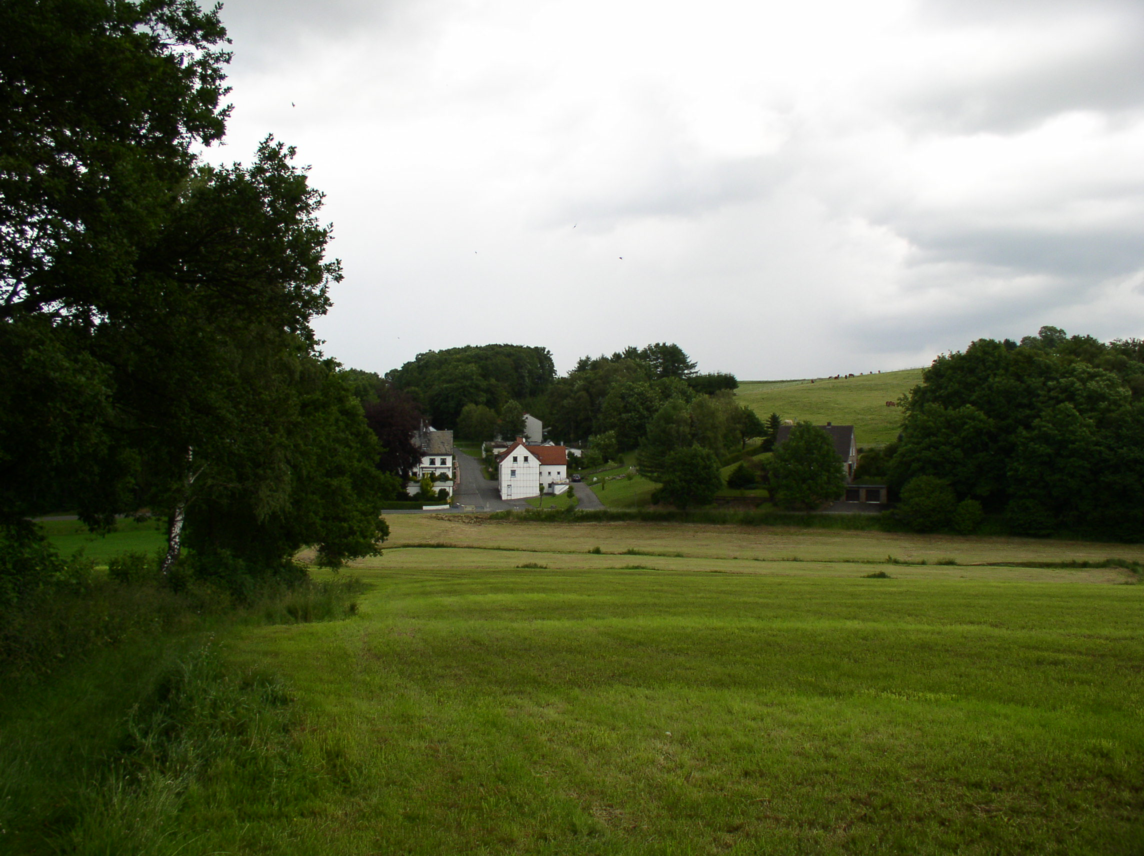 Halver-Im Sumpf